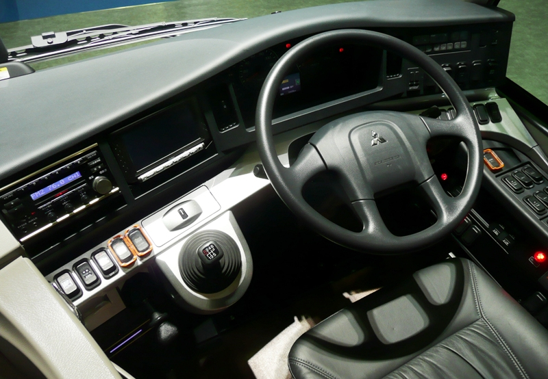 Mitsubishi Fuso Aero Queen interior.